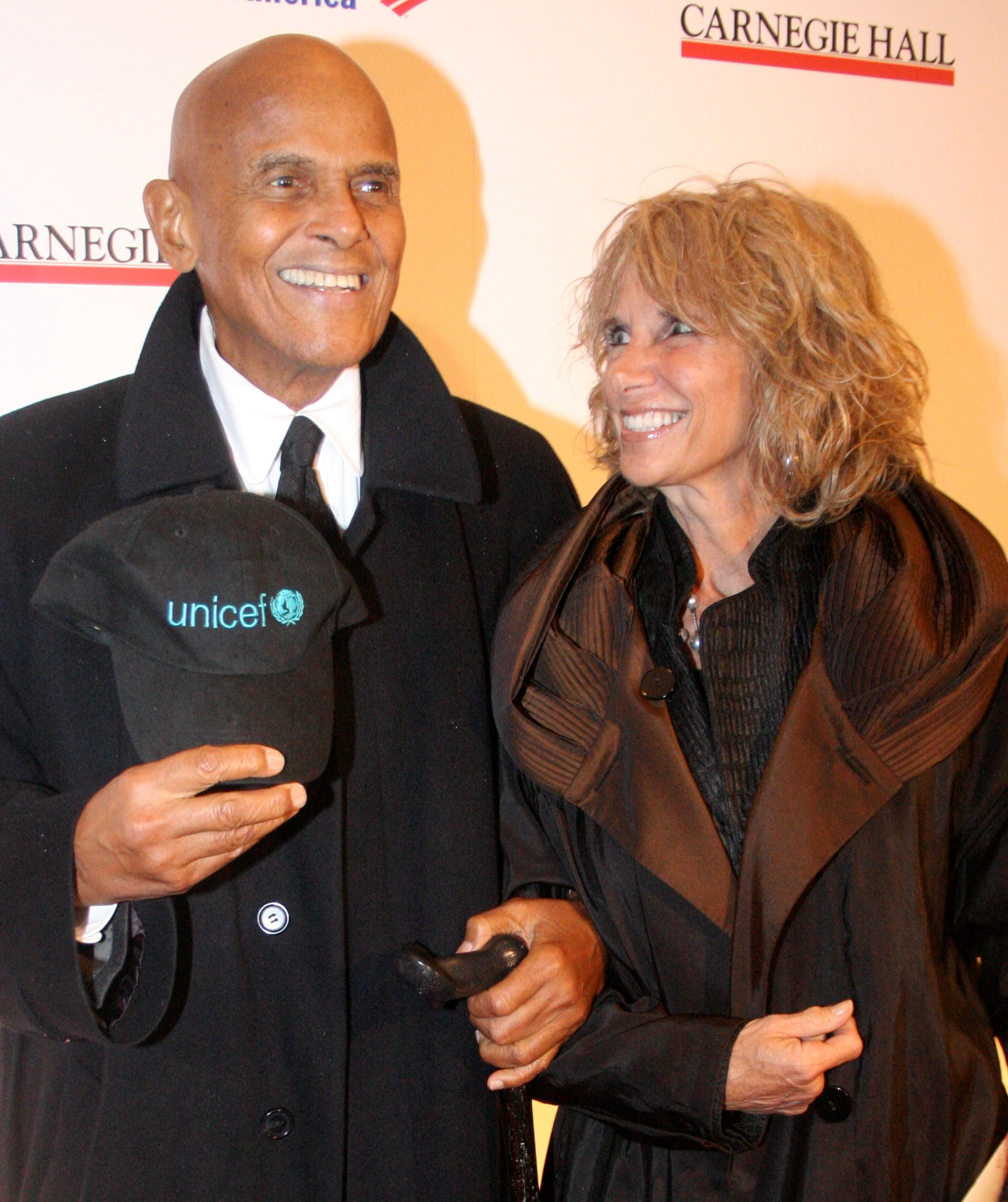 Harry Belafonte with wife Pamela at the 120th Anniversary of Carnegie Hall in MOMA, New York City in April 2011.